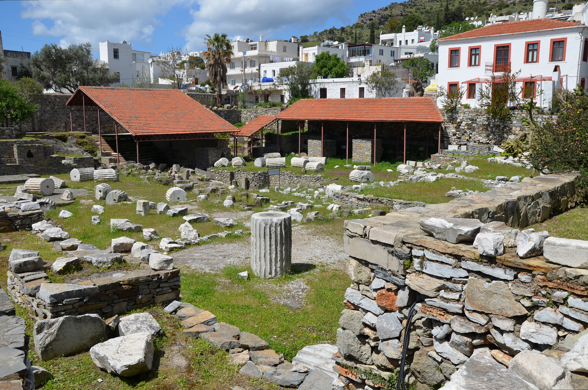 The ruins of the Mausoleum at Halicarnassus in Caria (now Bodrum in Turkey), constructed for King Mausolus during the mid-4th century BC.